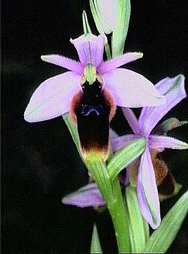 Sicilian botanical endemisms Ophrys lunulata